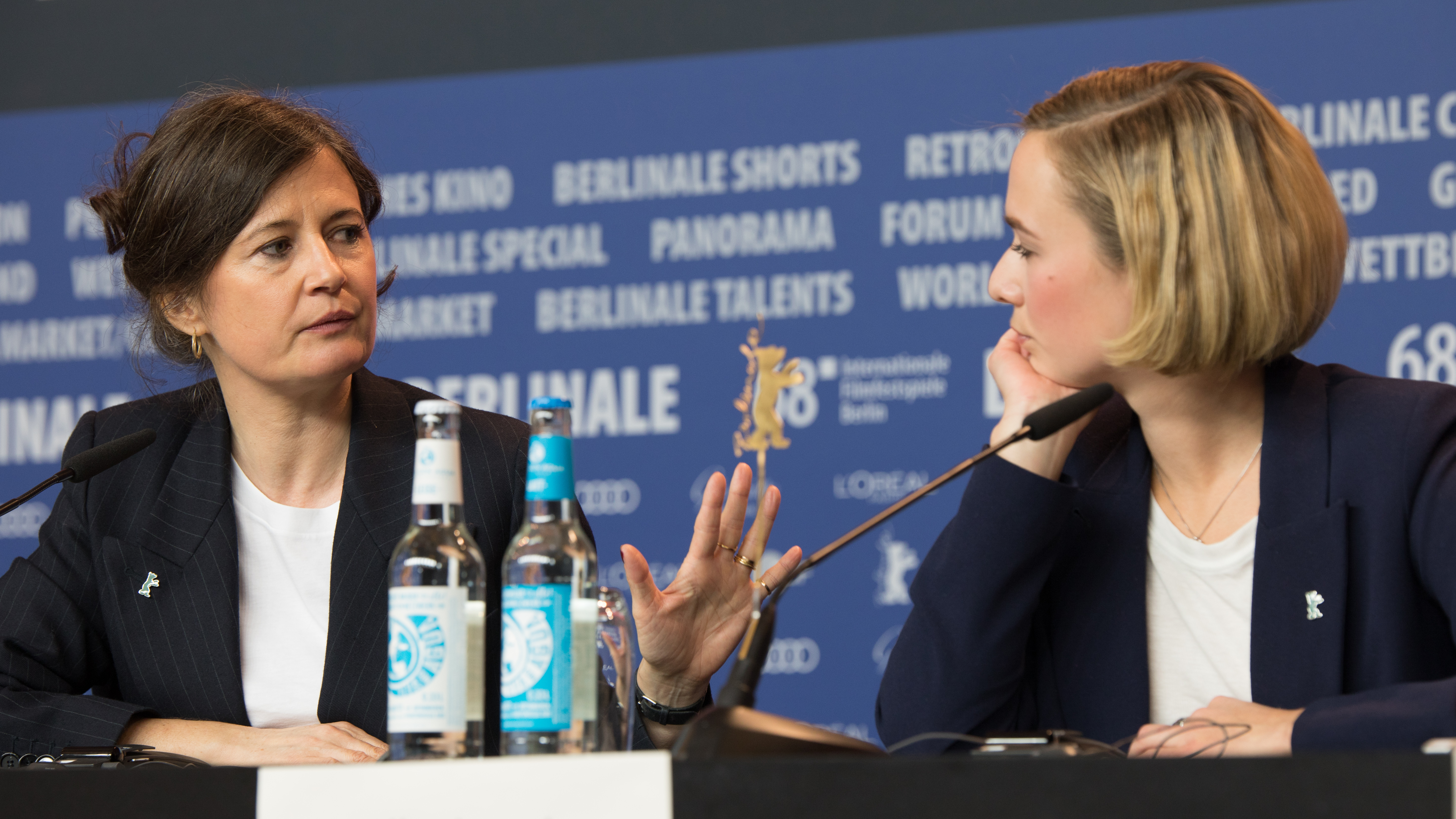 Pernille Fischer Christensen and Alba August at the press conference for the movie "Becoming Astrid", Berlinale 2018